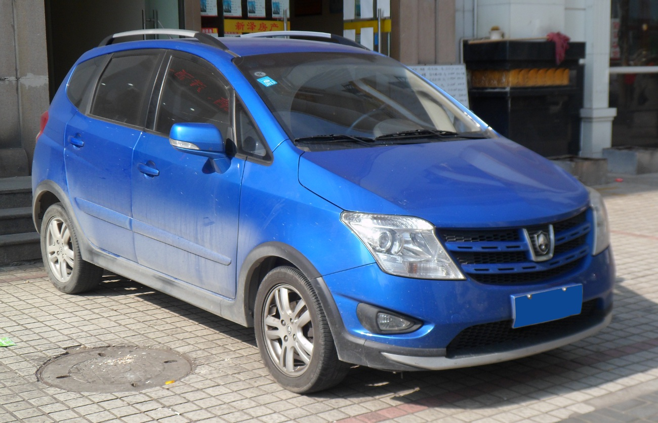 Chang'an CX20 Cross photographed in Shanghai, China.